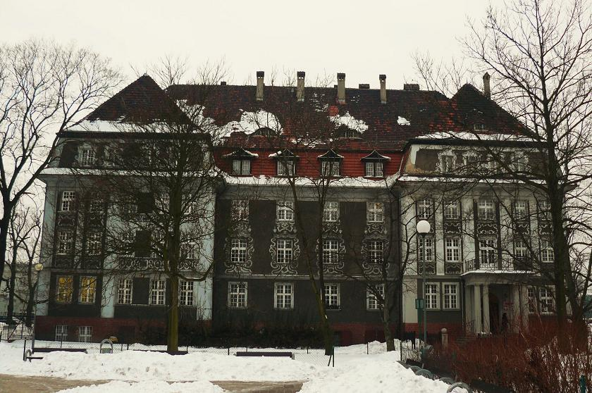 Old Men's House in Poznan (Wilda).